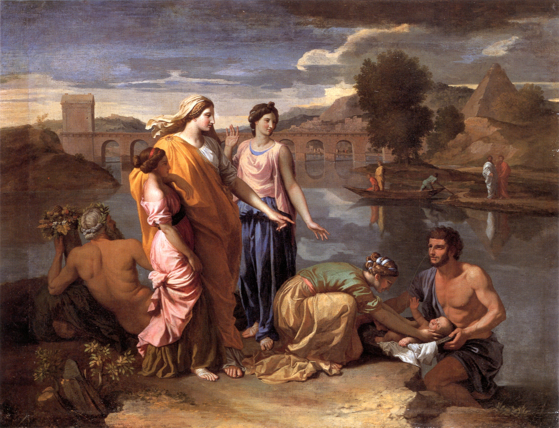 The Finding of Moseslabel QS:Len,"The Finding of Moses" label QS:Lfr,"Moïse sauvé des eaux"